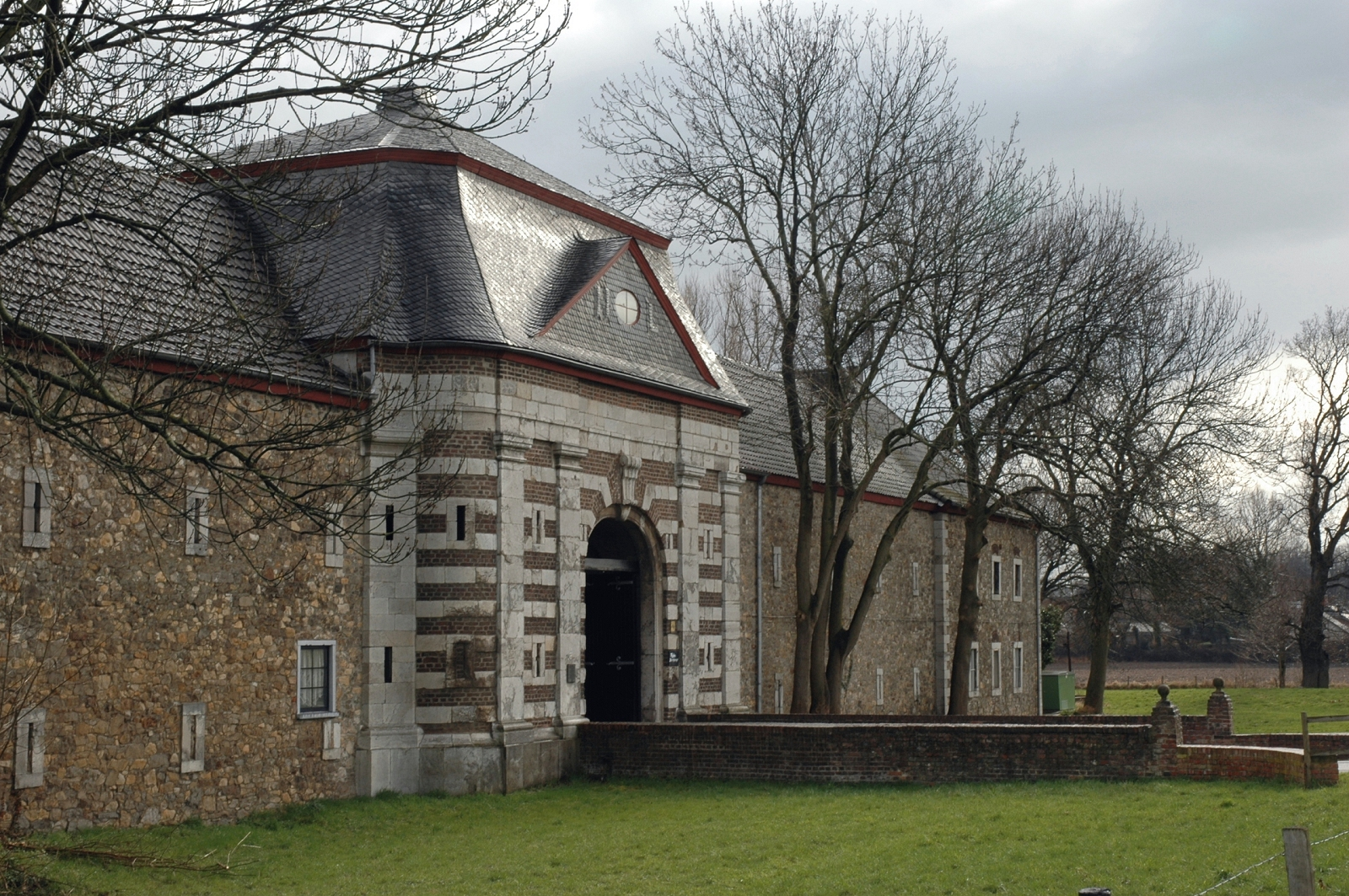 Haus Palant in Eschweiler-Weisweiler, northern front